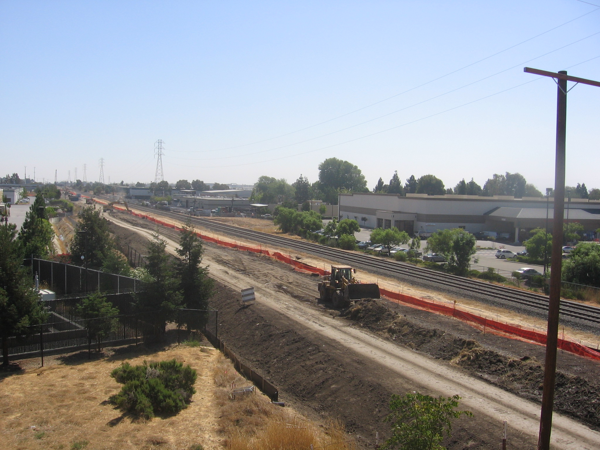 Construction underway on the Warm Springs BART extension as seen from the Auto Mall Parkway overpass in Fremont, California, USA. View is looking southwest. Double tracked Union Pacific freight railroad tracks are visible beyond where the BART right of way is being cleared.